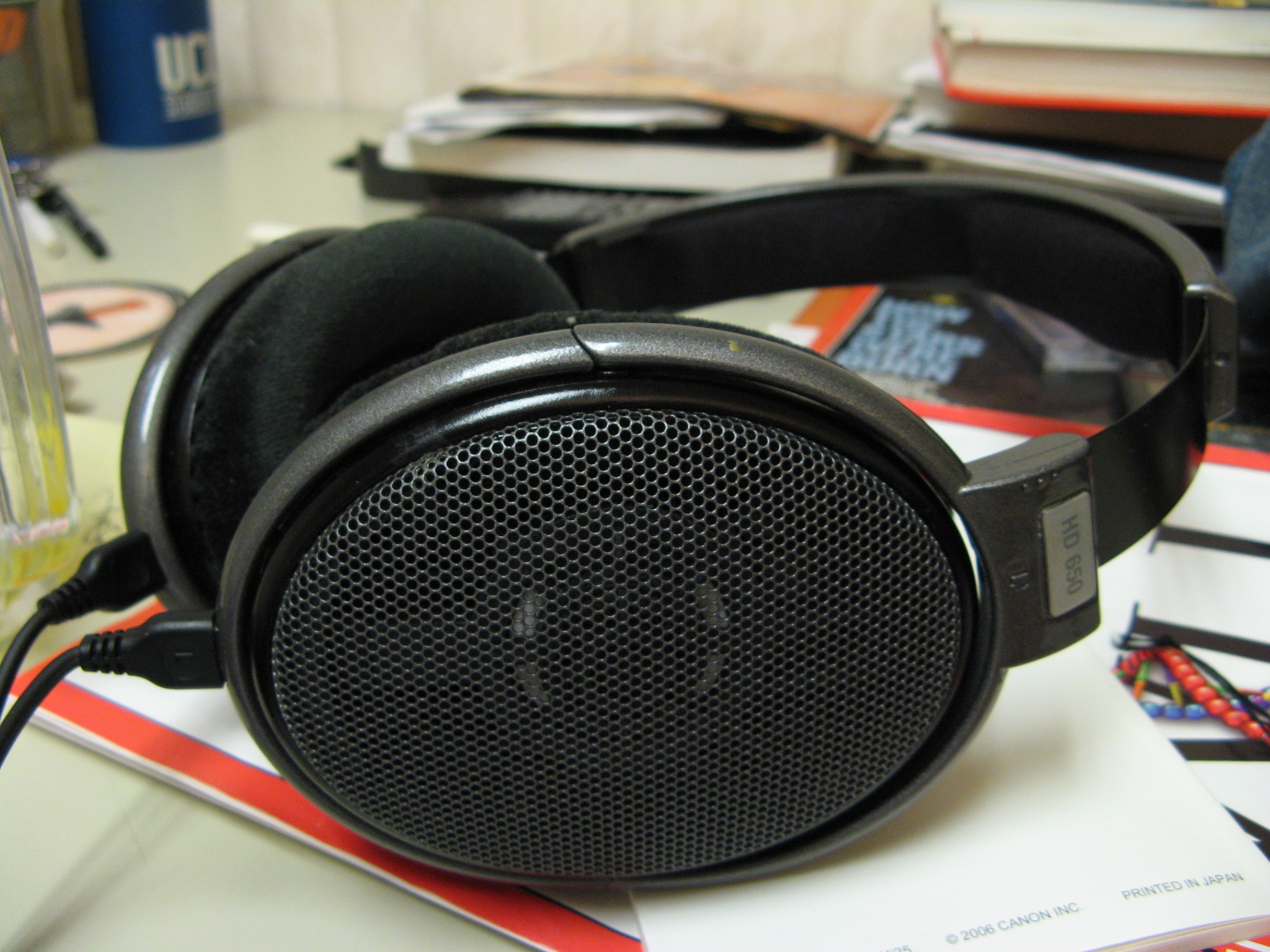 Sennheiser's flagship headphone HD650.